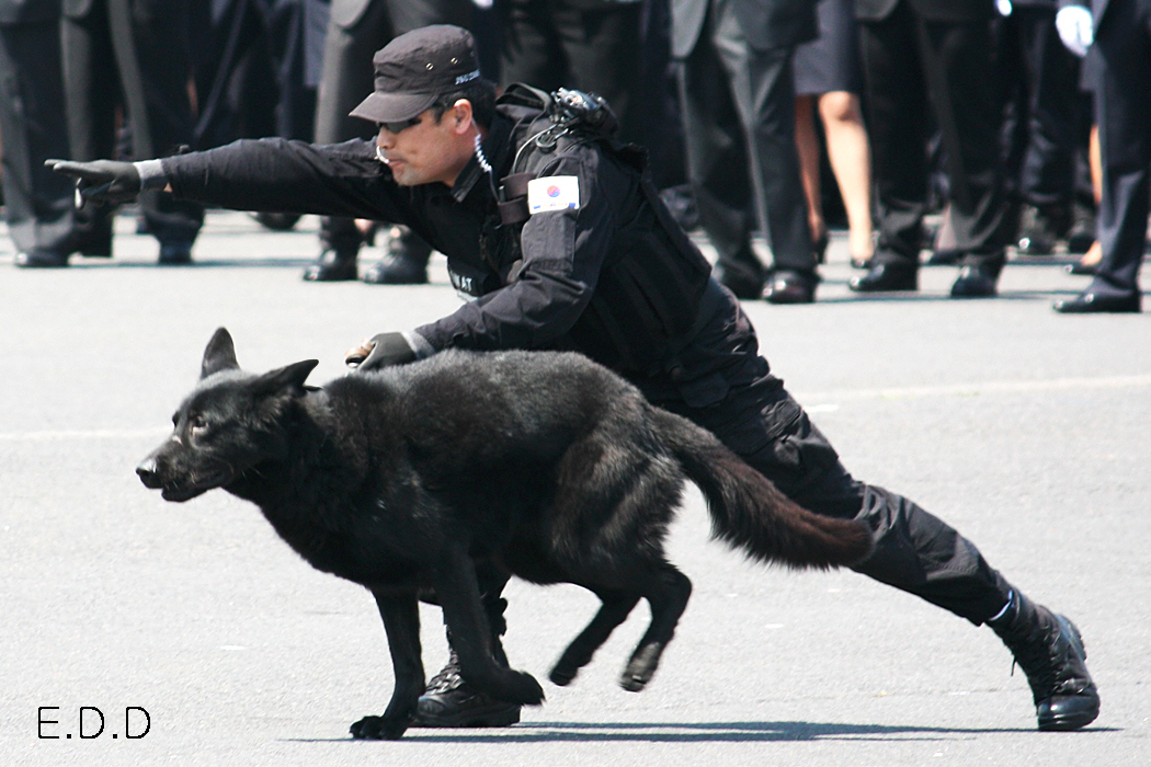 Explosive Detection Dog, Remote control Detection.